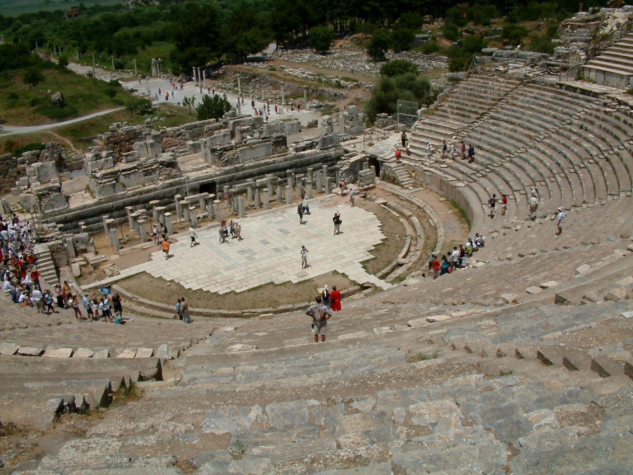 Ephesus, Turkey: the ancient theatre.